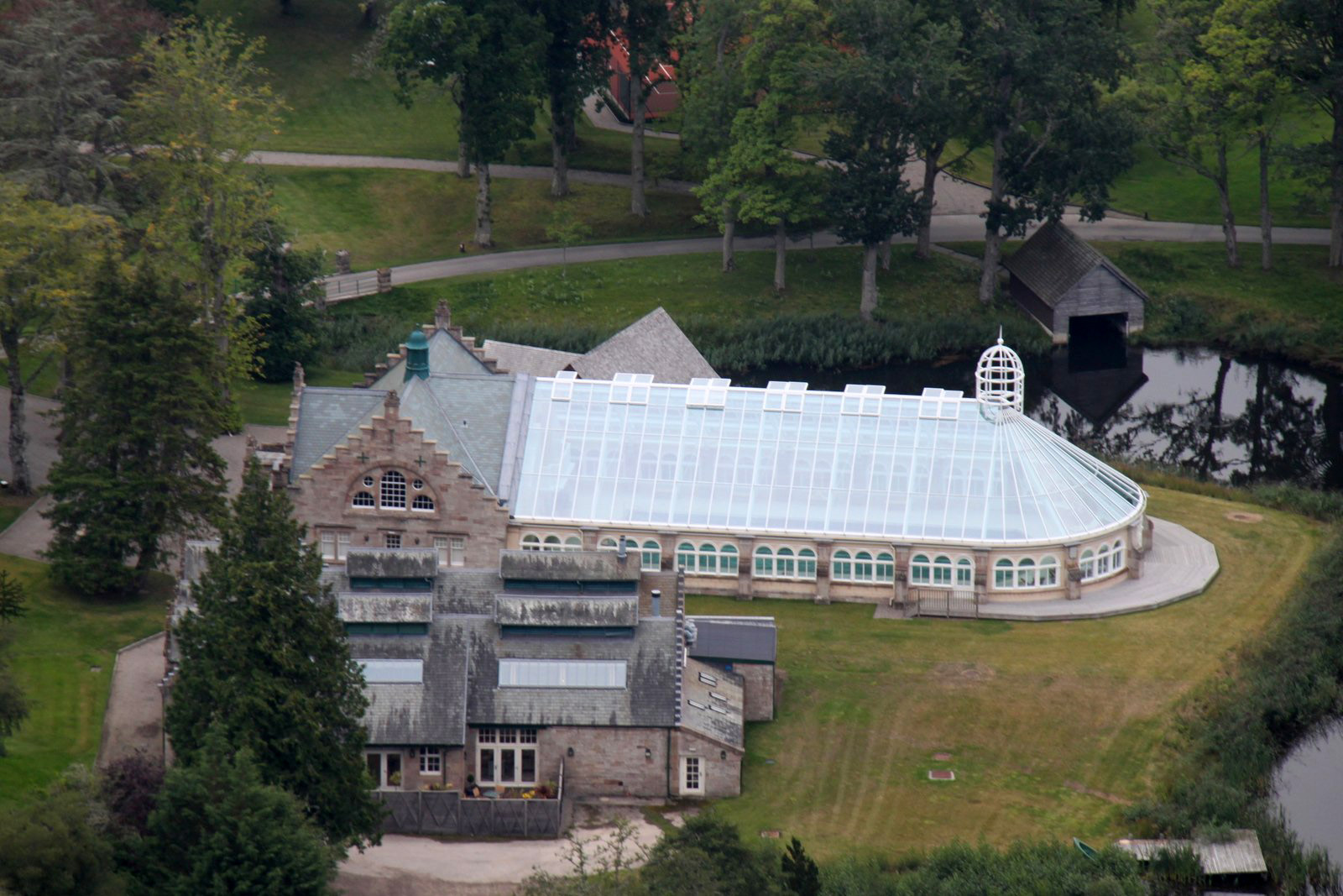 Skibo Castle Swimming Pool